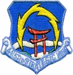 4252d Strategic Wing emblem. A copy of this emblem was downloaded from for use in my book “The Genealogy of the STRATEGIC AIR COMMAND” with the webmasters’ approval.